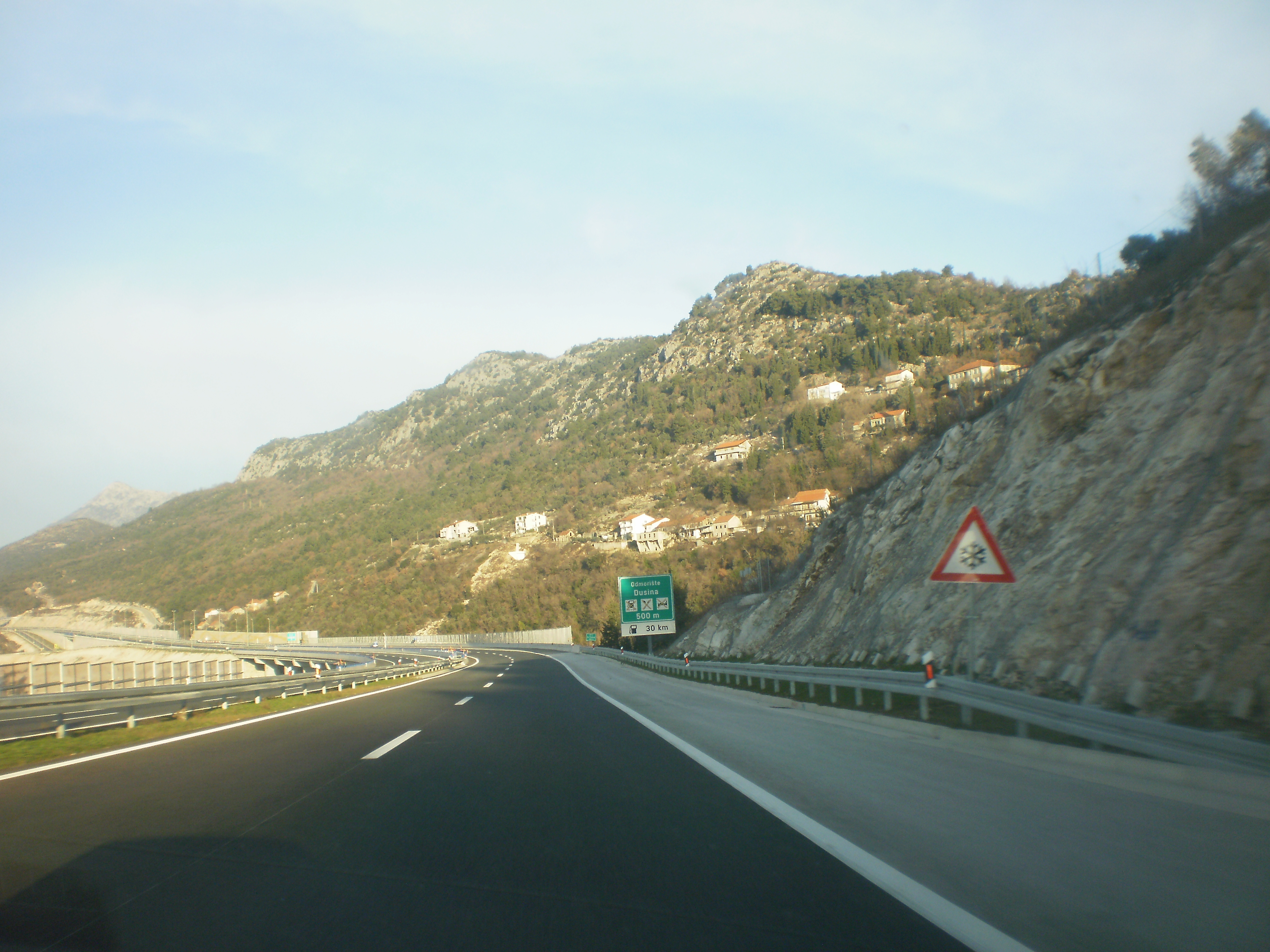 A1 highway in Croatia. A part between Ploče and Vrgorac OLYMPUS DIGITAL CAMERA